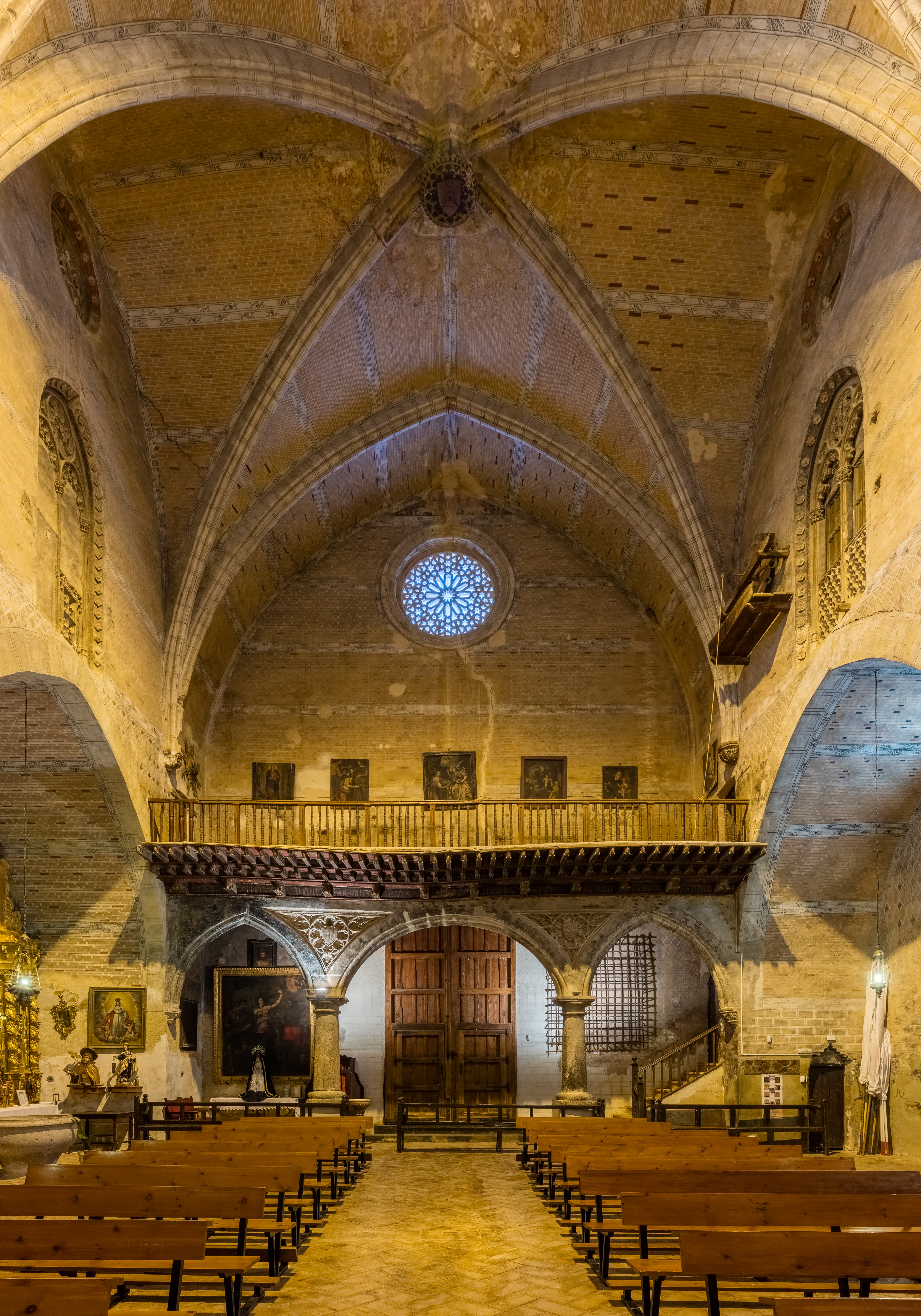 Church of St Felix, Torralba de Ribota, Zaragoza, Spain